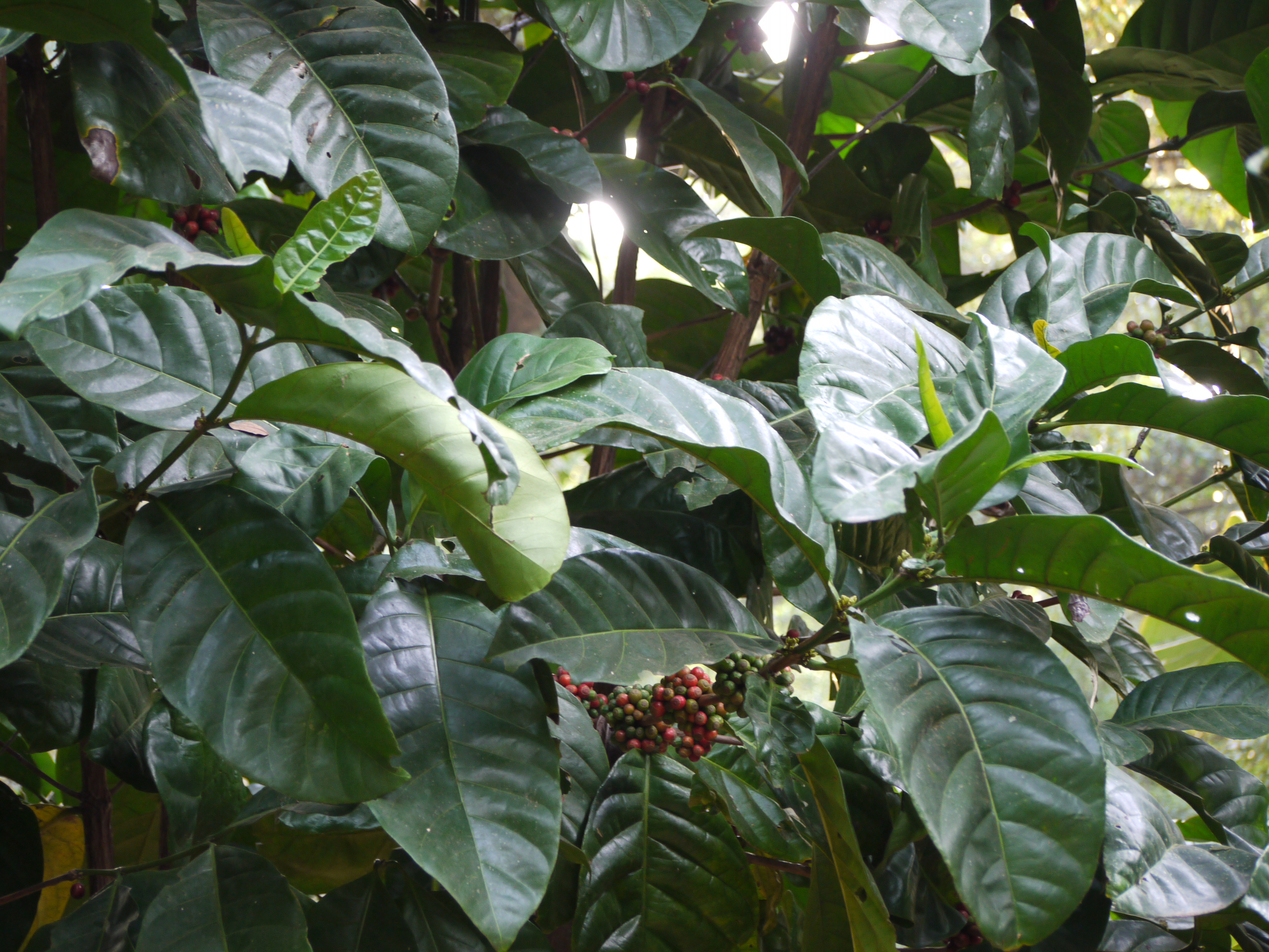 Rubiaceae (madder, bedstraw, or coffee family) » Coffea liberica KOFF-ee-uh -- from Turkish kahve, in turn from Arabic qahwa ly-BER-ee-kuh -- of or from Liberia (West Africa) commonly known as: coffee, Liberian coffee • Arabic: بن bun, قہوة qahwat • Assamese: কফি kaphi • Bengali: কফি kaphi • Gujarati: કૉફી kophi • Hindi: काफ़ी kafi, कॉफी kophi • Kannada: ಕಾಫಿ kaaphi • Kashmiri: कह्व kahwa • Konkani: कॉफि kawphi • Malayalam: കാപ്പിച്ചെടി kaappicceti • Manipuri: kophi • Marathi: कवा kava, कॉफि kophi • Mizo: kaw-fi • Nepali: कहुवा kahuwa, काफि kaphi • Persian: قہوه qahwa • Tamil: காபி kapi • Telugu: కాఫీ kaaphii Native of: west coast of Africa; cultivated elsewhere References: Wikipedia • NPGS / GRIN • Old and Sold